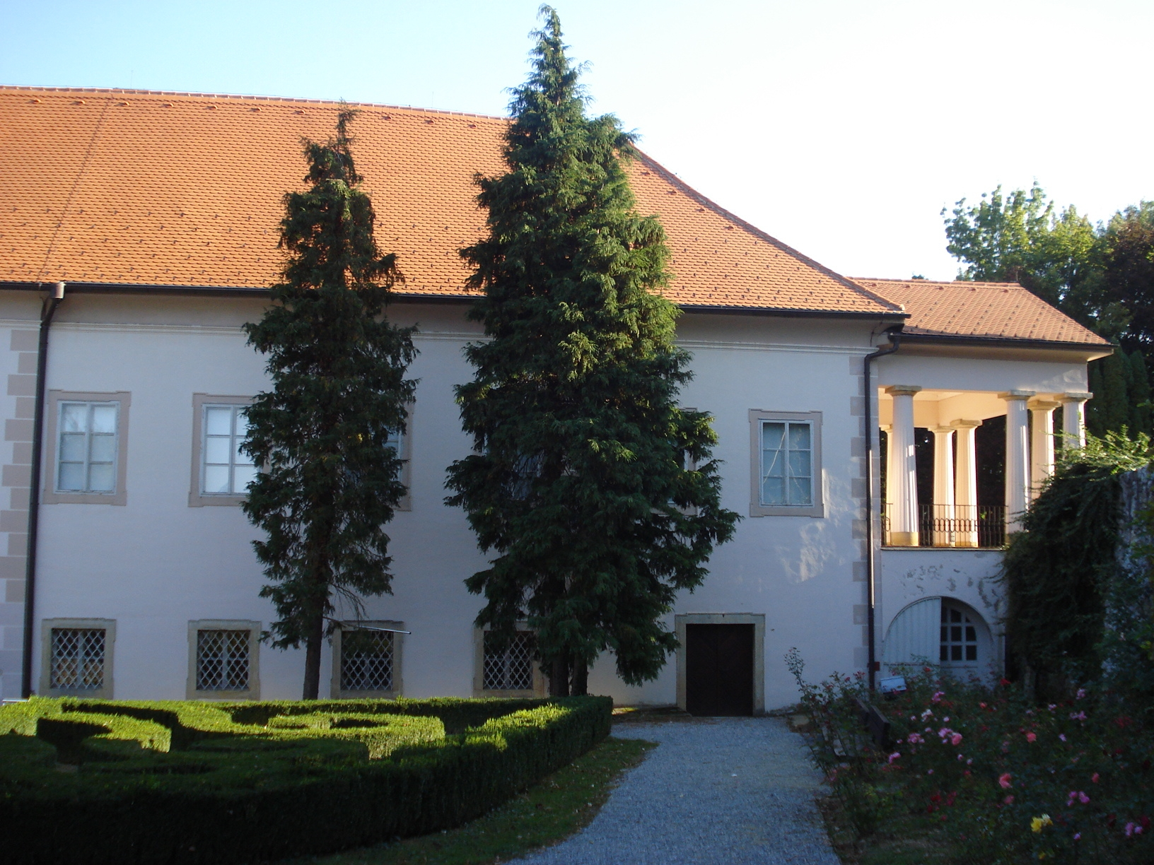 Oršić Castle in Gornja Stubica, Croatia - garden in front of the castle